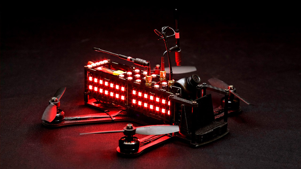 The image depicts the Racer2, a type of drone manufactured by DRL.